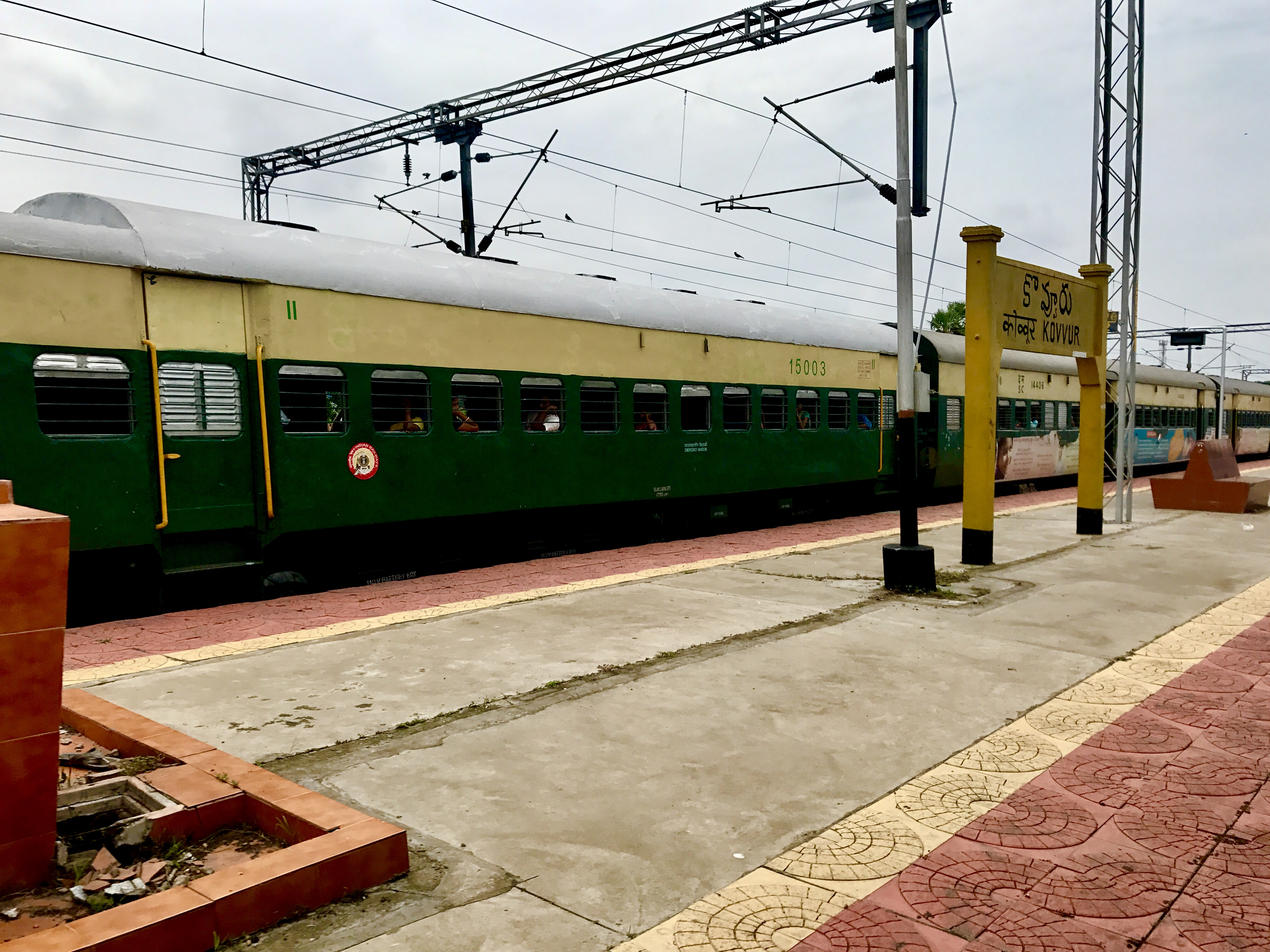 Kovvur railway station board